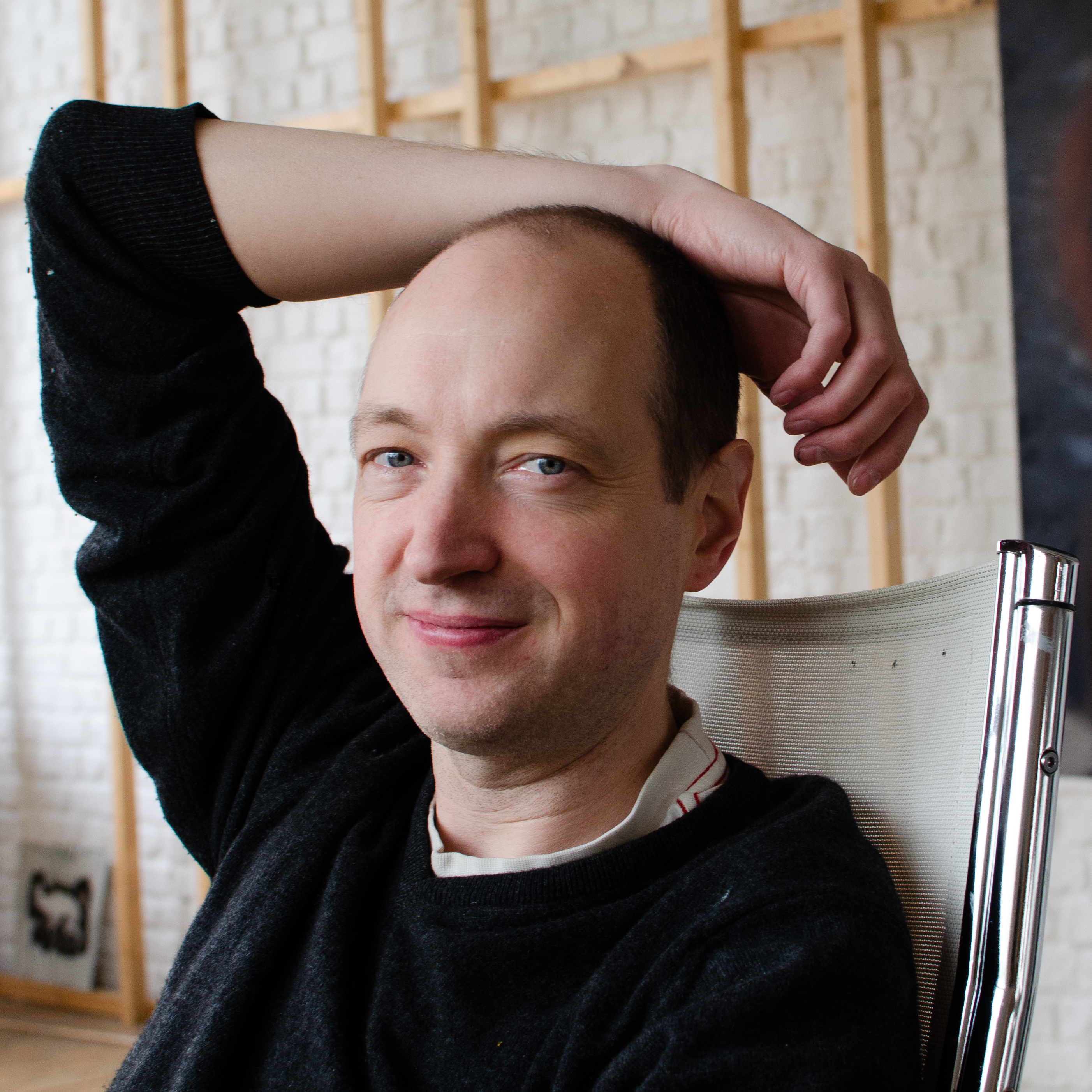 The artist Philipp Fröhlich in his studio.